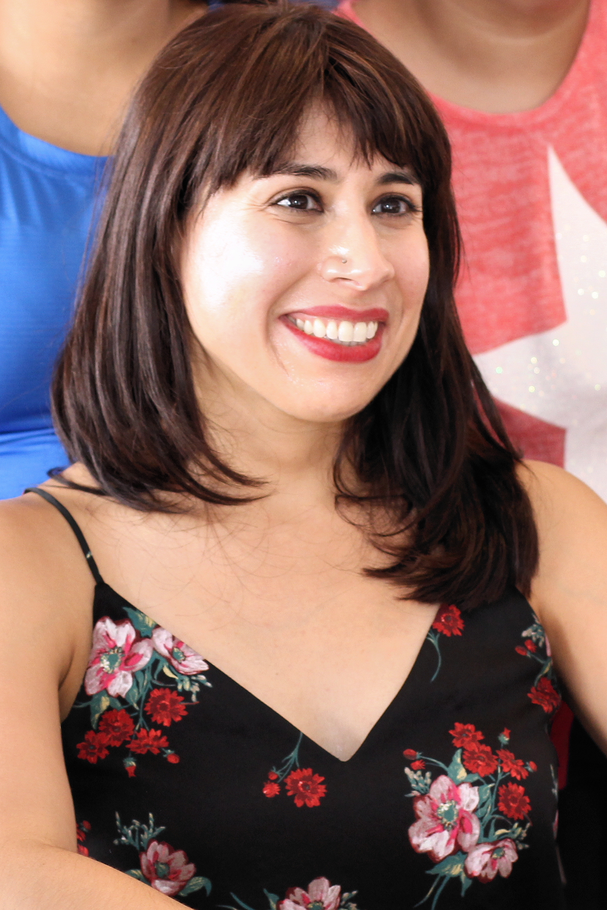 Author Erika L. Sánchez at the 2018 Texas Book Festival in Austin, Texas, United States.